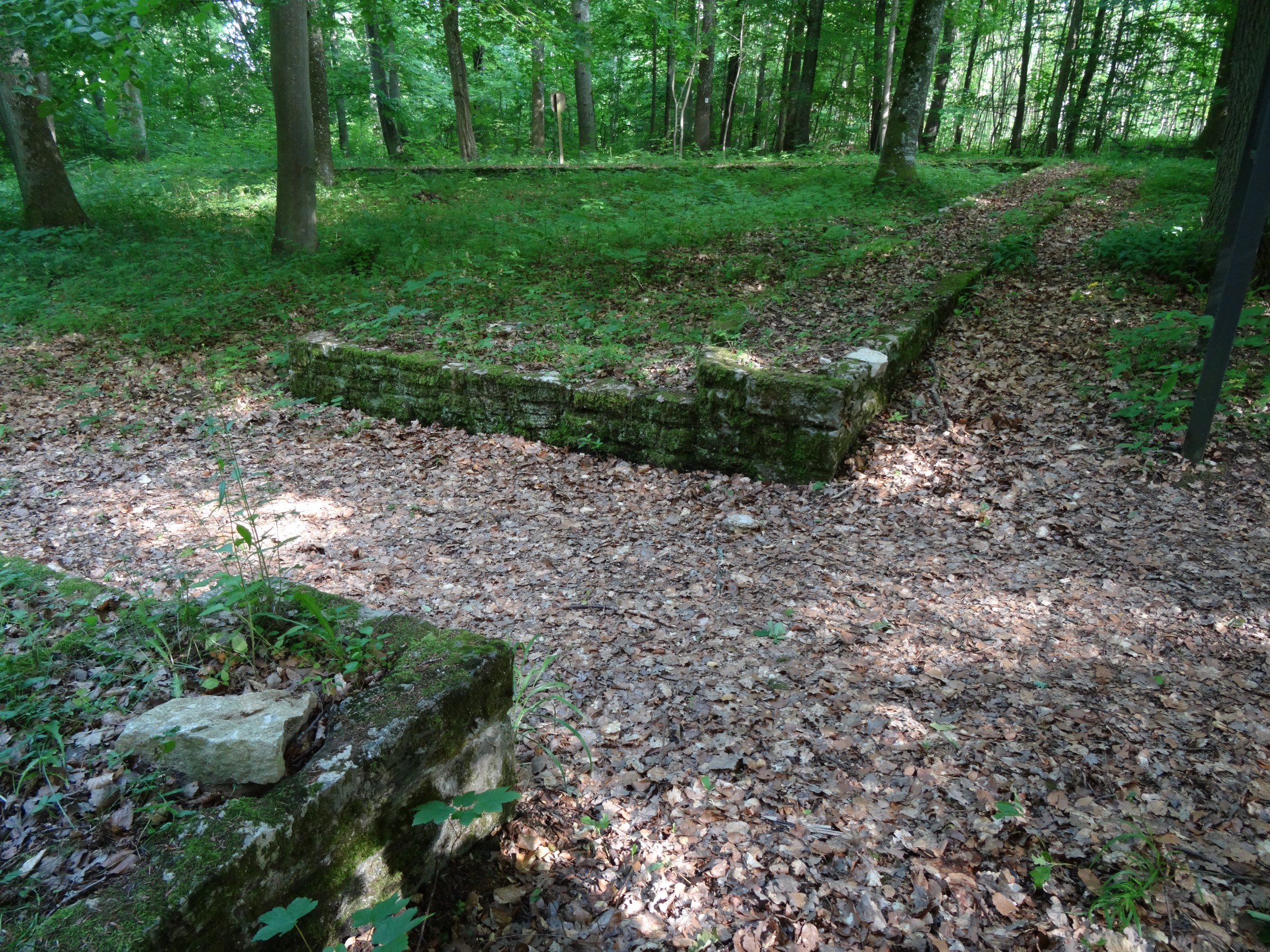 Roman fortlet Hönehaus near Buchen-Hettingen (Germany), west entrance, view along the wall direction south